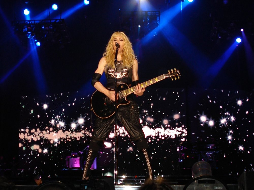 Houston Concert